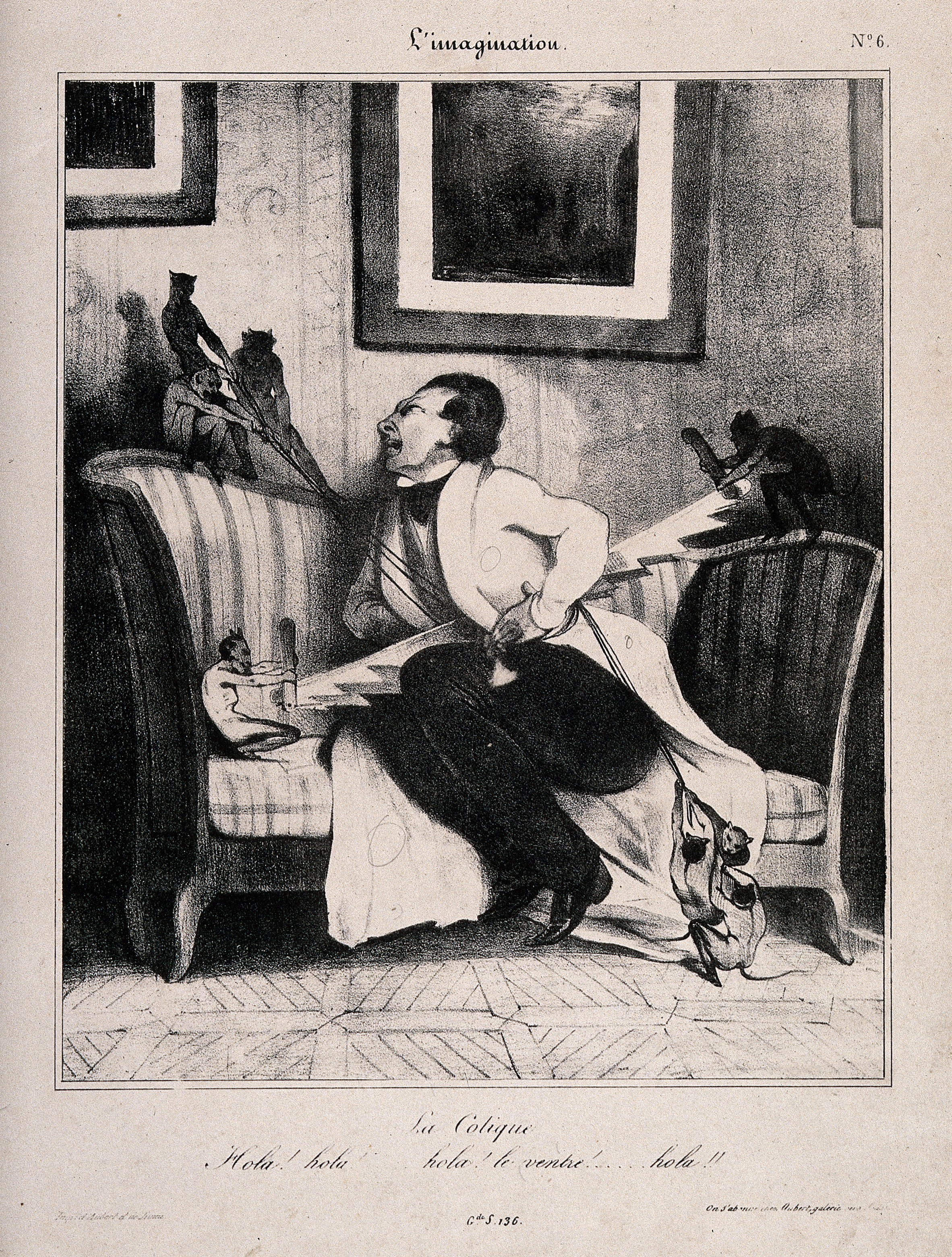 Devils saw away at a colic sufferer's abdomen. Lithograph by C. Ramelet after H. Daumier, c. 1833. Iconographic Collections Keywords: Honoré Daumier; caricature; cholic; Charles Ramelet